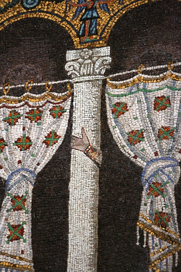 Basilica of Sant'Apollinare Nuovo, Ravenna, Emilia-Romagna, Italy. Detail of nave mosaic at the west end depicting Theodoric's Palace. The mosaic dates from around 500 AD under Theodoric, but around 560 the mosaic was censored by Catholics because the King and his court were Arians and, thus, considered heretics. Their images were replaced with blank backgrounds and curtains. A hand, belonging to one of the original occupants, can still be seen on some columns.